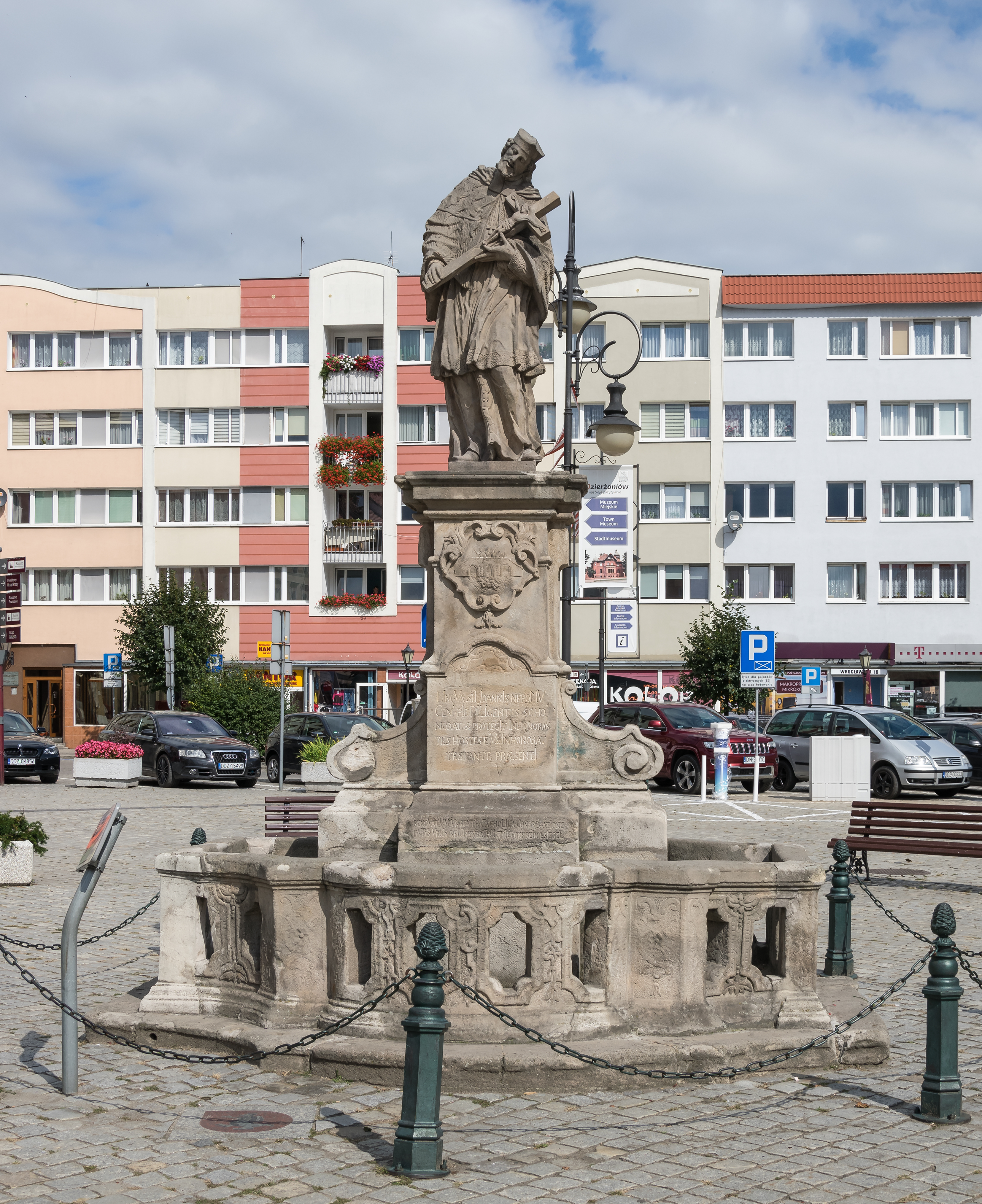 John of Nepomuk monument in Dzierżoniów